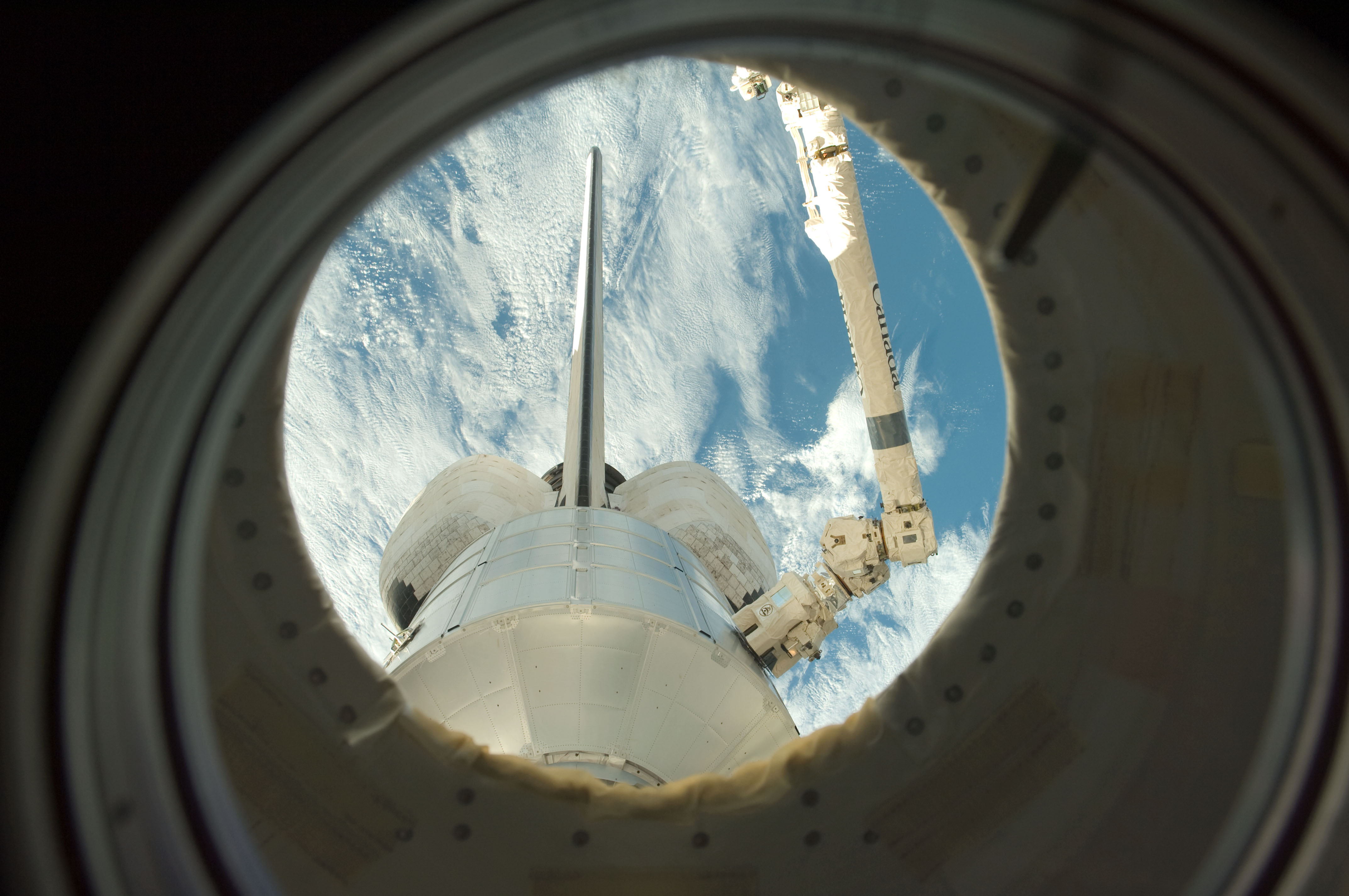 In the grasp of the International Space Station's Canadarm2 robotic arm, the Leonardo Multi-Purpose Logistics Module is placed back in Discovery's payload bay. STS-128 pilot Kevin Ford and astronaut Jose Hernandez were at the controls of the robotic arm in the Destiny laboratory. They grappled Leonardo and removed it from the Harmony node and placed it inside the shuttle's payload bay for the return home.